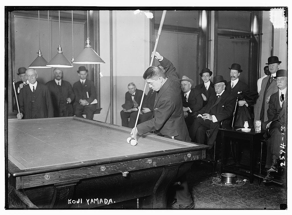 Bain News Service,, publisher. Koji Yamada in 1912 [between 1910 and 1915] 1 negative : glass ; 5 x 7 in. or smaller. Notes: Title from unverified data provided by the Bain News Service on the negatives or caption cards. Forms part of: George Grantham Bain Collection (Library of Congress). Format: Glass negatives. Repository: Library of Congress, Prints and Photographs Division, Washington, D.C. 20540 USA, General information about the Bain Collection is available at Persistent URL: Call Number: LC-B2- 2594-13 This photo has notes. Move your mouse over the photo to see them.